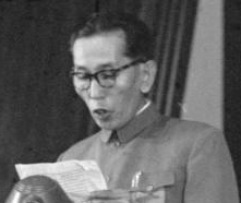 Ngapoi Ngawang Jigme at the first session of the PRC's First National People's Congress in 1954. Picture is in the public domain, the copyright has expired.